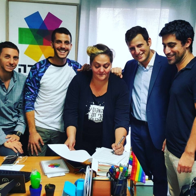 בעת החתימה על הגשת בג"ץ נישואים. בתמונה: עו"ד חגי קלעי, עו"ד אוהד רוזן, חן אריאלי, אימרי קלמן, עודד פריד